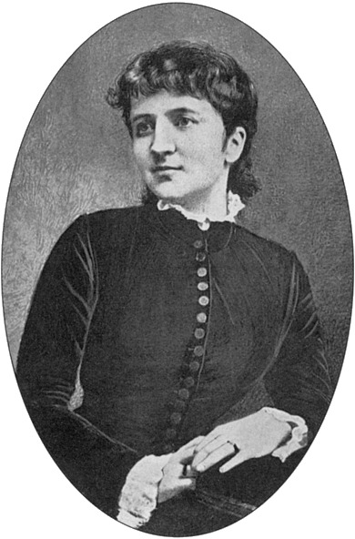 Katharine O'Shea (1846-1921). Parnell kept this miniature of Katharine with him at Kilmainham.